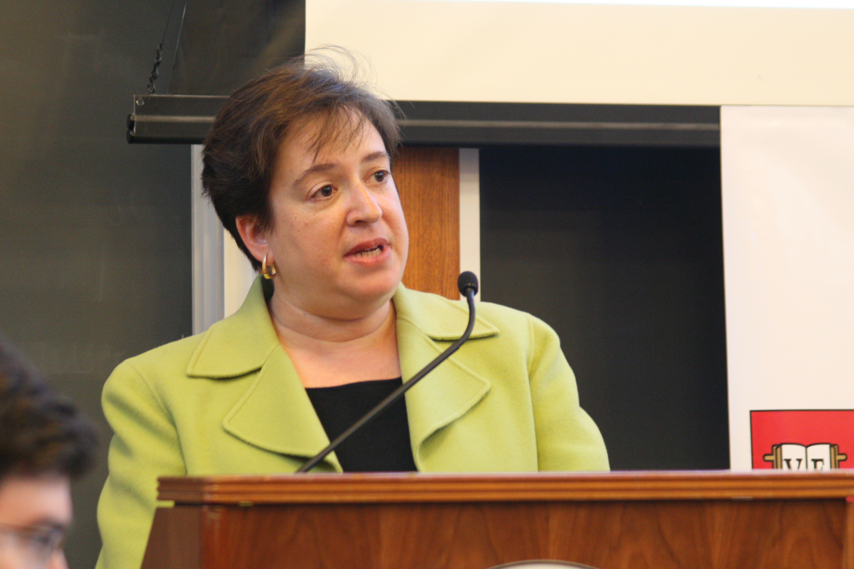 Then-Harvard Law School dean Elena Kagan